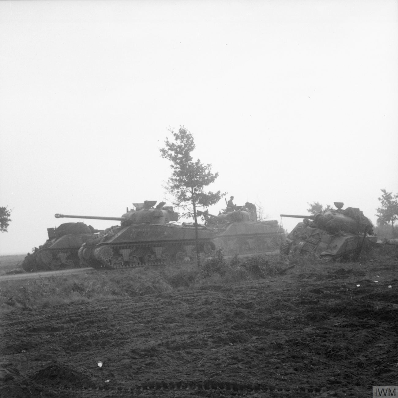 A Sherman Firefly tank of the Irish Guards Group advances past Sherman tanks knocked out earlier during Operation Market-Garden.